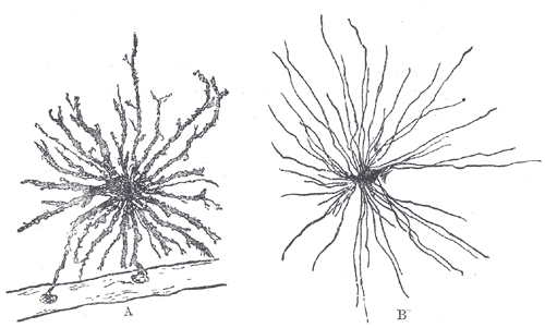 Neuroglia, from Gray's anatomy, at (public domain).